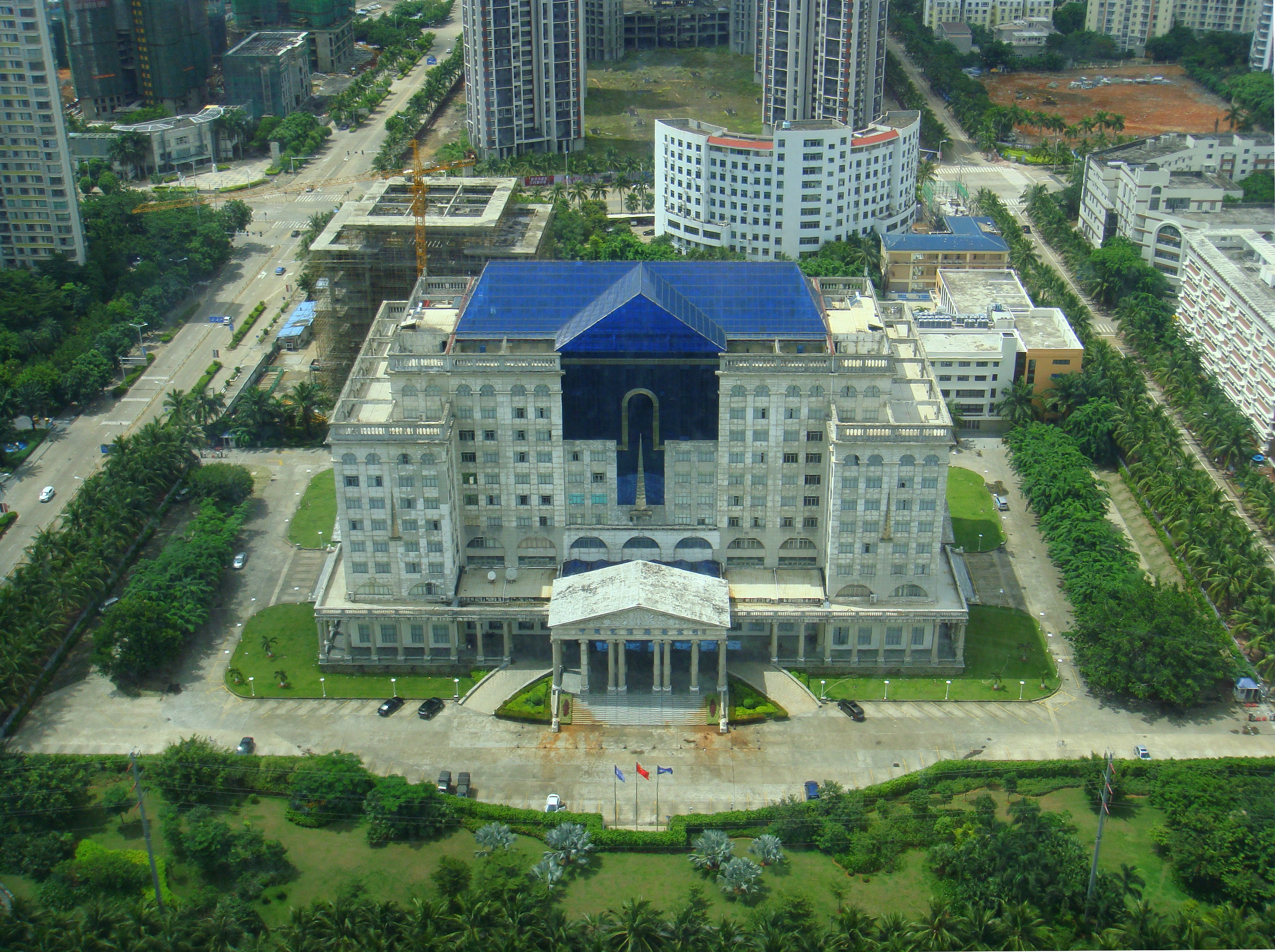 China Telecom building in Haikou, Hainan, China